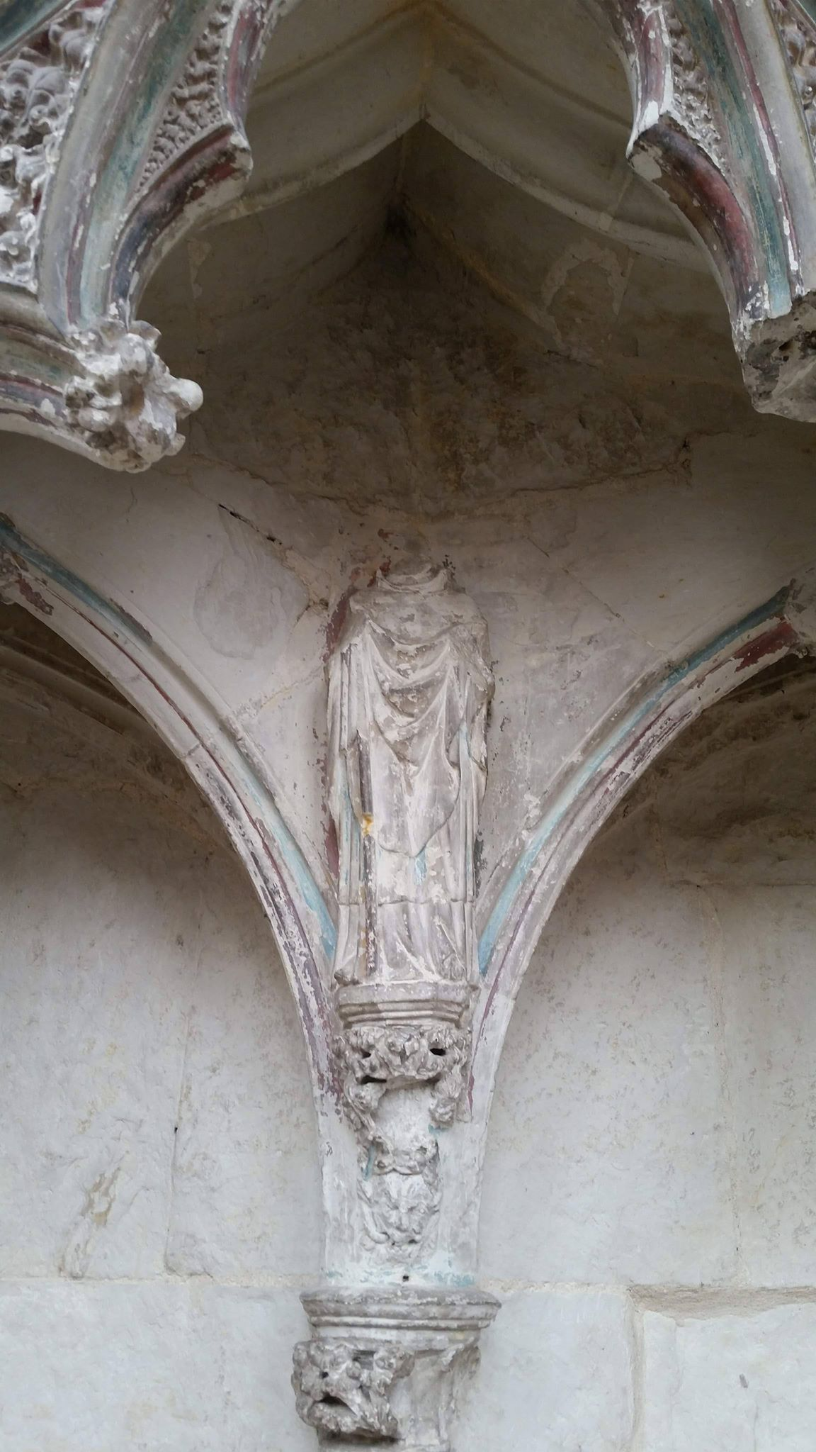 Vandalized Image, Lady Chapel, Ely Cathedral